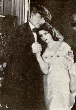 Still from the American crime drama film Love's Prisoner (1919) with Olive Thomas, on page 54 of the June 14, 1919 Exhibitors Herald.